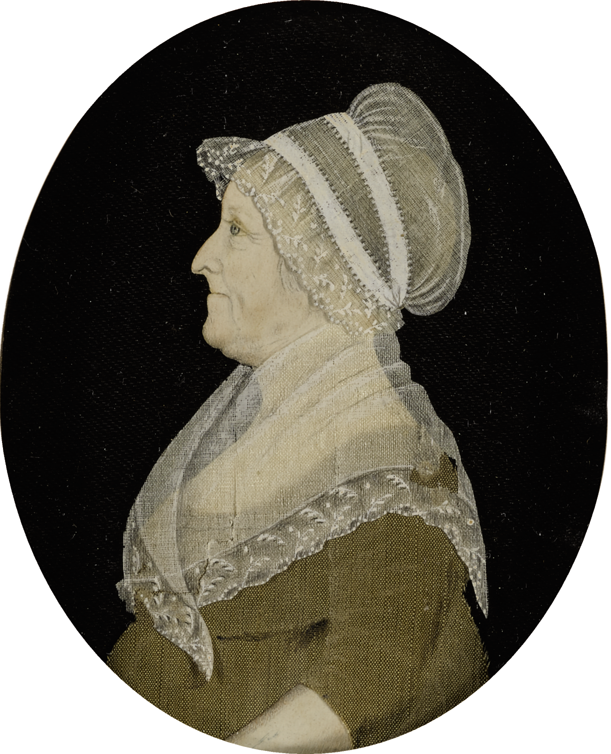 ATTRIBUTED TO MARY B. WAY (1769-1833) PAIR OF MINIATURE PORTRAITS: MAJOR GENERAL JEDEDIAH AND MRS. ANN MOORE HUNTINGTON watercolor and ink on cut paper and silk appliques mounted on black silk New London or Norwich, Connecticut circa 1790 3 ½ by 3 in.